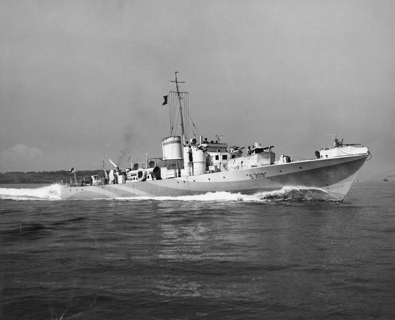 Motor Gun Boats during the Second World War, 1939-1945 Steam Gun Boat, MGB S309, under the command of Lieutenant Commander Peter Scott underway at sea. S.309 was also known as 'Grey Goose'